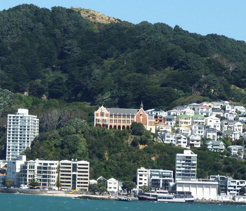 Mt. Victoria and St. Gerard's church